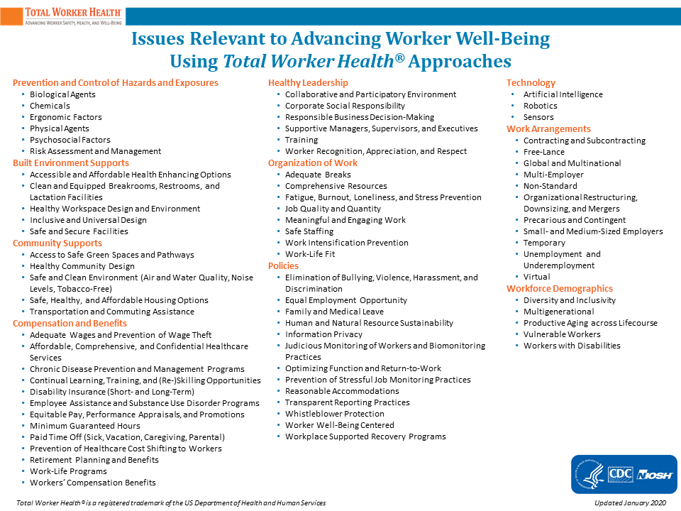 The following graphic, “Issues Relevant to Advancing Worker Well-Being Using Total Worker Health® Approaches” illustrates a wide-ranging list of issues that are relevant to advancing worker safety, health, and well-being. Revised in January 2020, this list reflects an expanded focus for TWH that recognizes workplace and work issues such as innovative technologies, working conditions, and emerging forms of employment that present new risks for today’s and tomorrow’s workforce. Learn more at